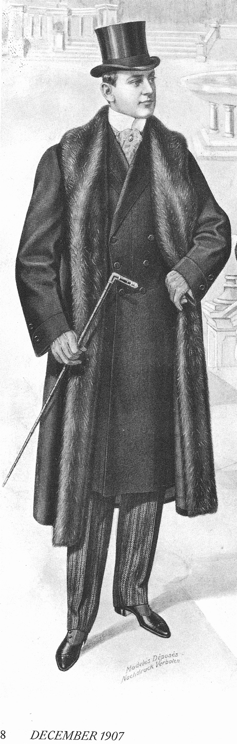 A 1907 fashion plate of a fur-lined greatcoat.